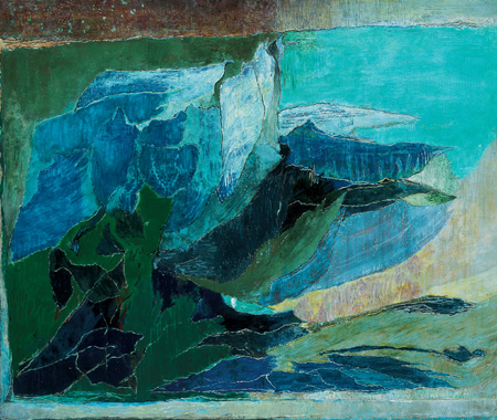 Painting by Ilka Gedő at the Szent Istvan Kiraly Museum Szekesfehervar ROSE GARDEN IN THE WIND Oil on cardboard, 52.8 x 63 cm